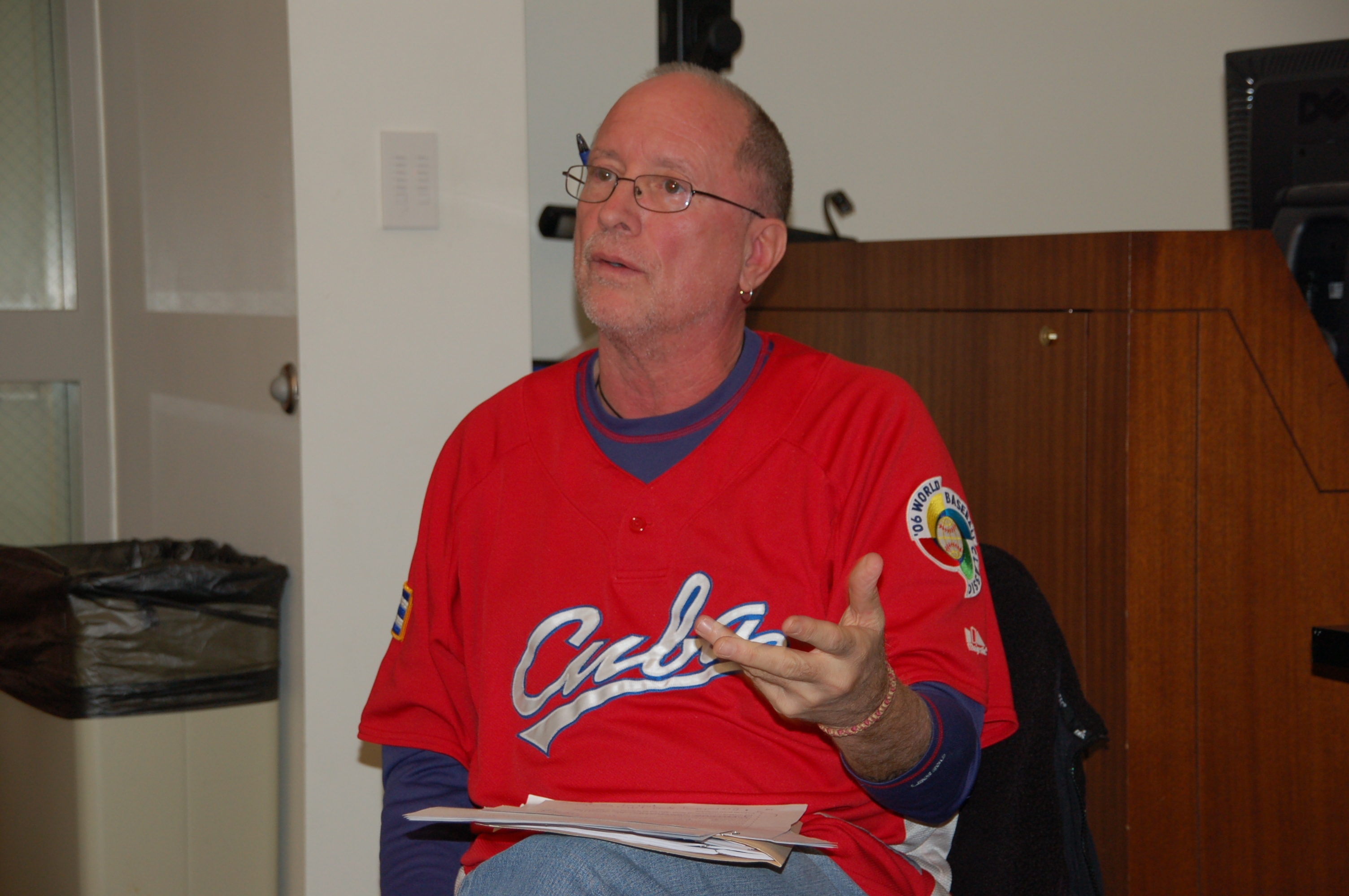 Bill Ayers and the author (Thomas Good) spoke on a "Resisting Endless War" panel at a Movement for a Democratic Society (MDS) conference in Chicago, November 9-11, 2007.